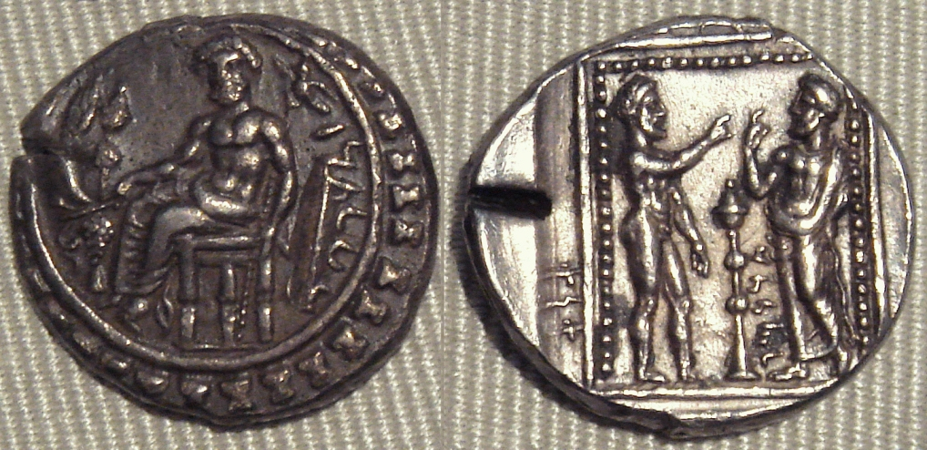 Coin of Datames. Cabinet des Medailles, personal photograph 2006.